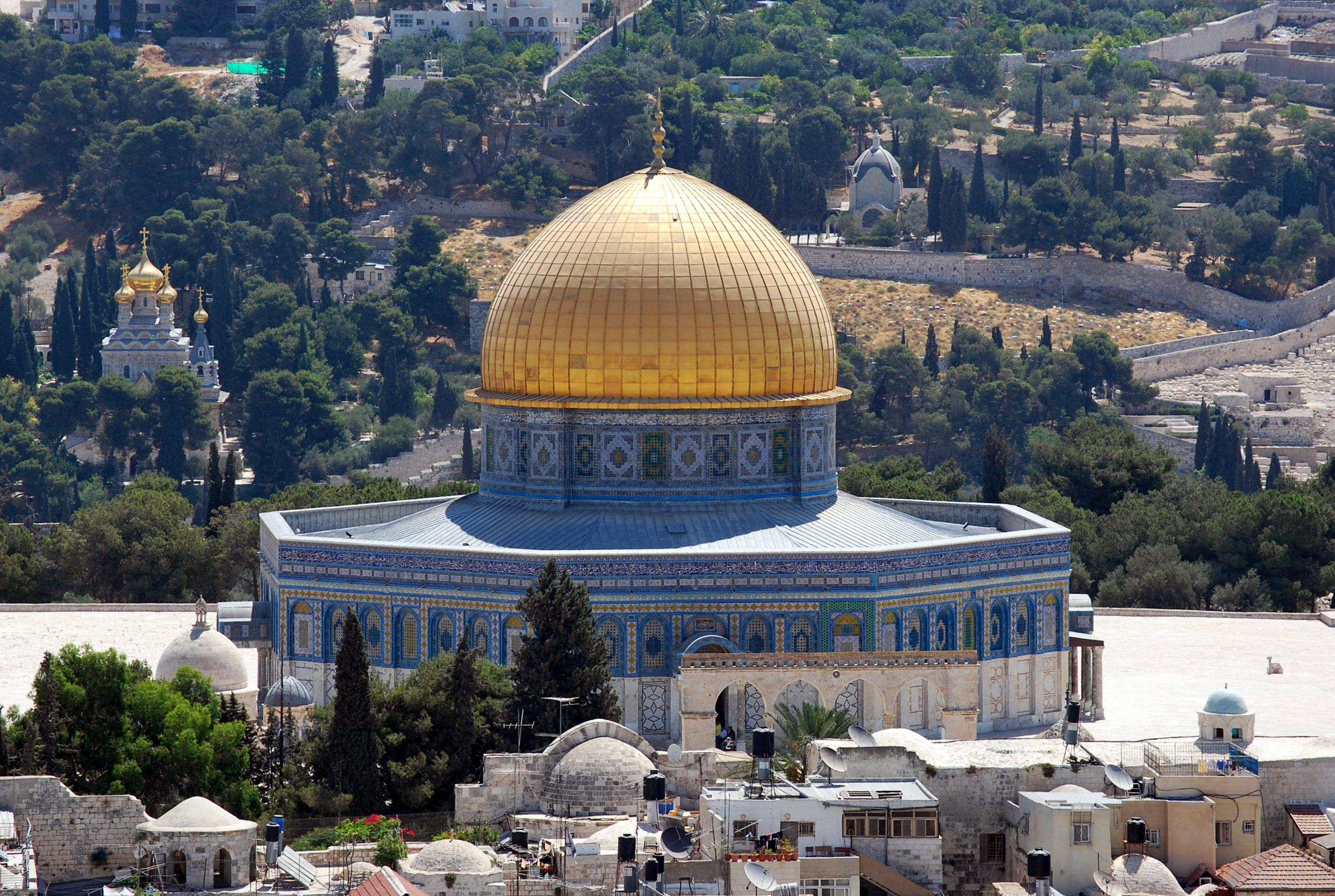 Dome of the Rock Jerusalem